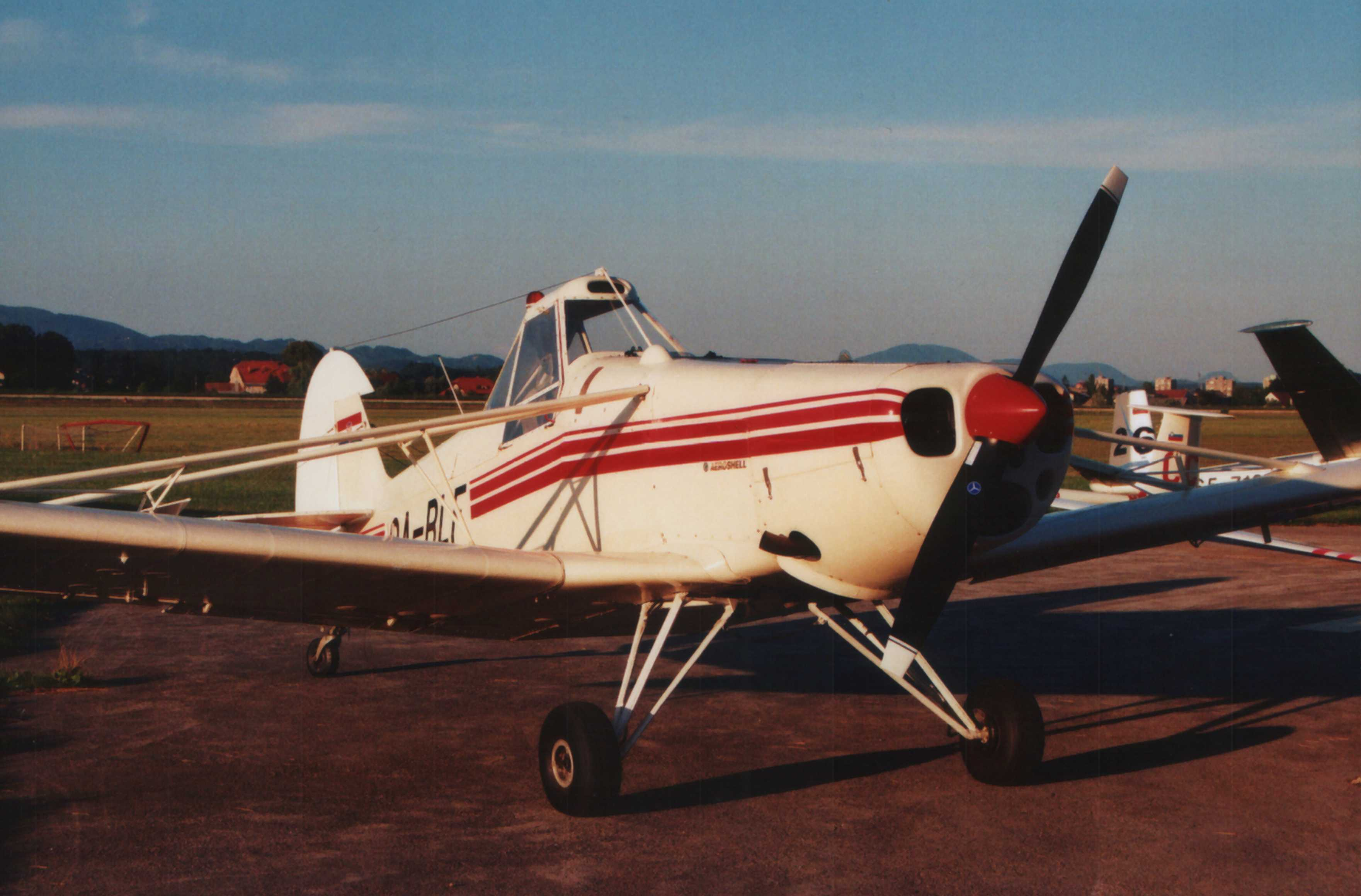 Airport Celje, a new glider tug Piper PA-25-235 Pawnee.